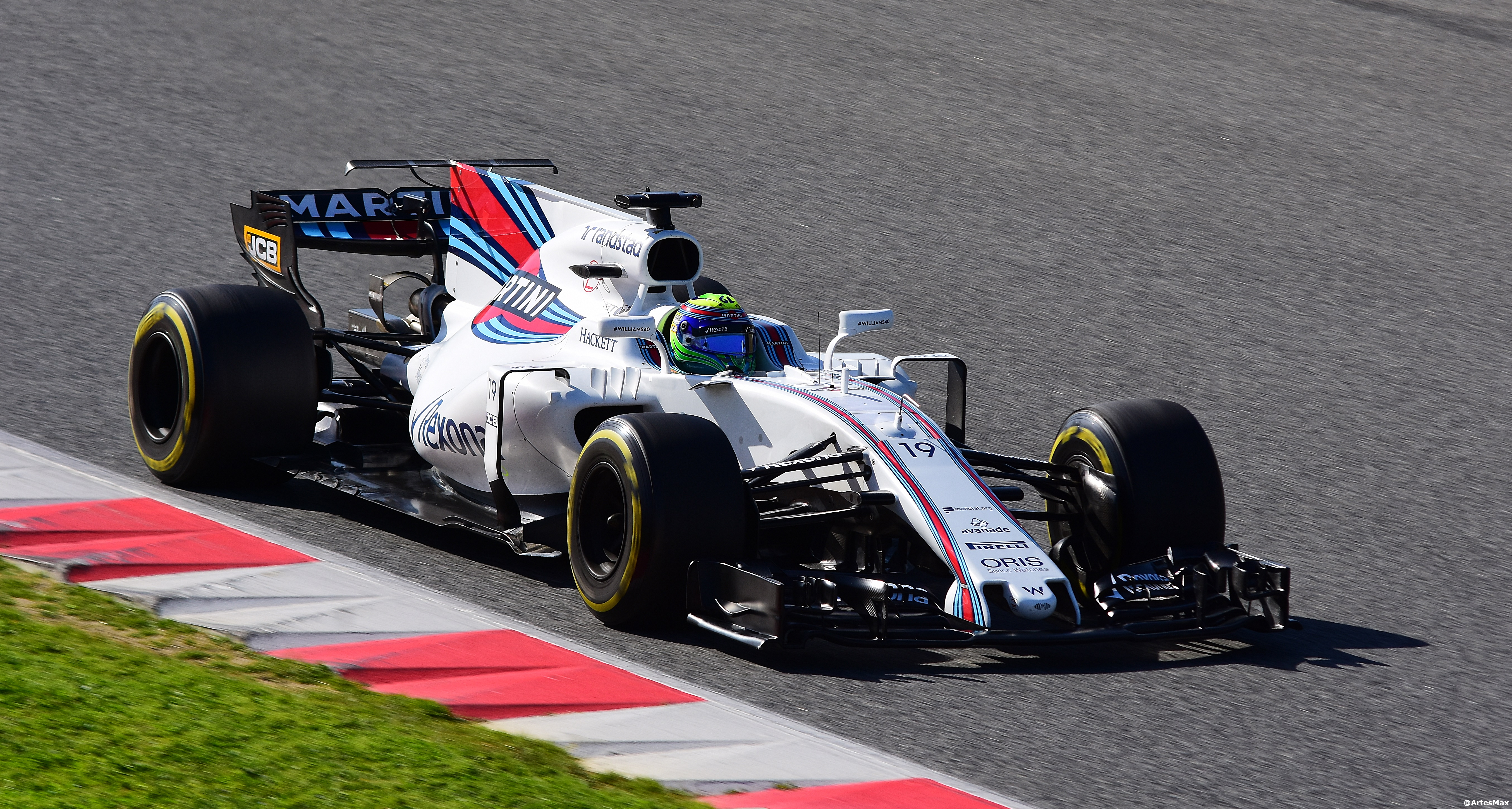 Felipe Massa testing the Williams FW40 at Barcelona